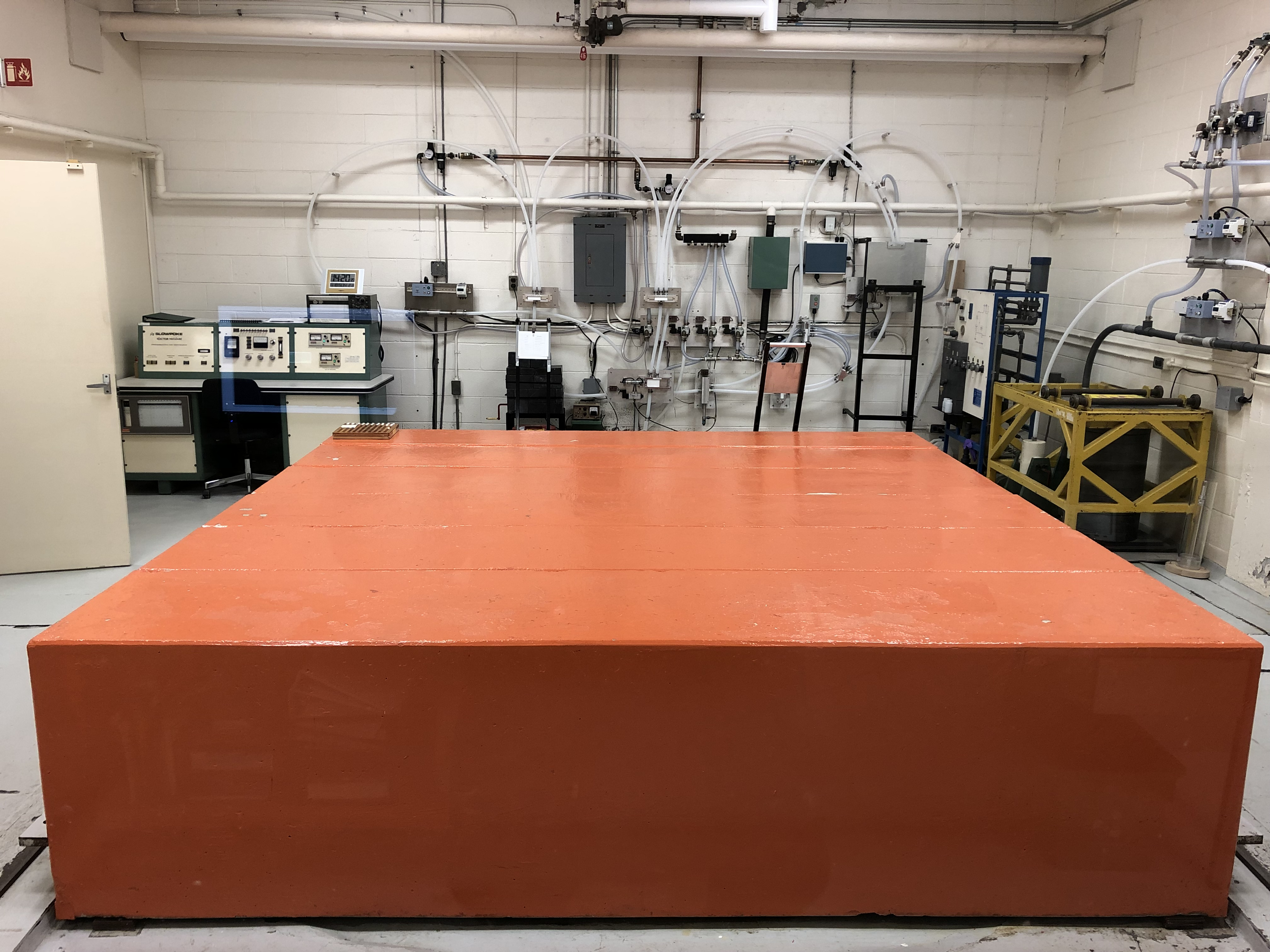 École Polytechnique de Montréal Slowpoke Reactor cover.